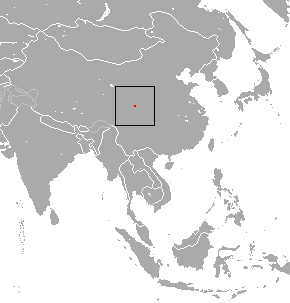 Salenski's Shrew (Chodsigoa salenskii) range